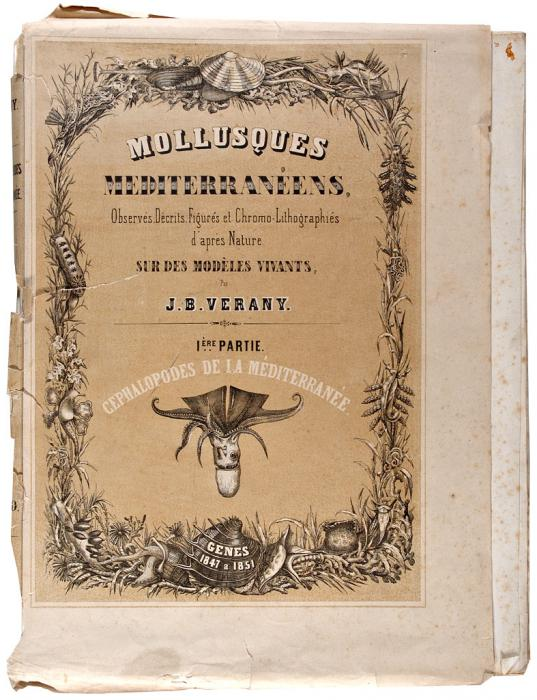 Mollusques Méditerranéens